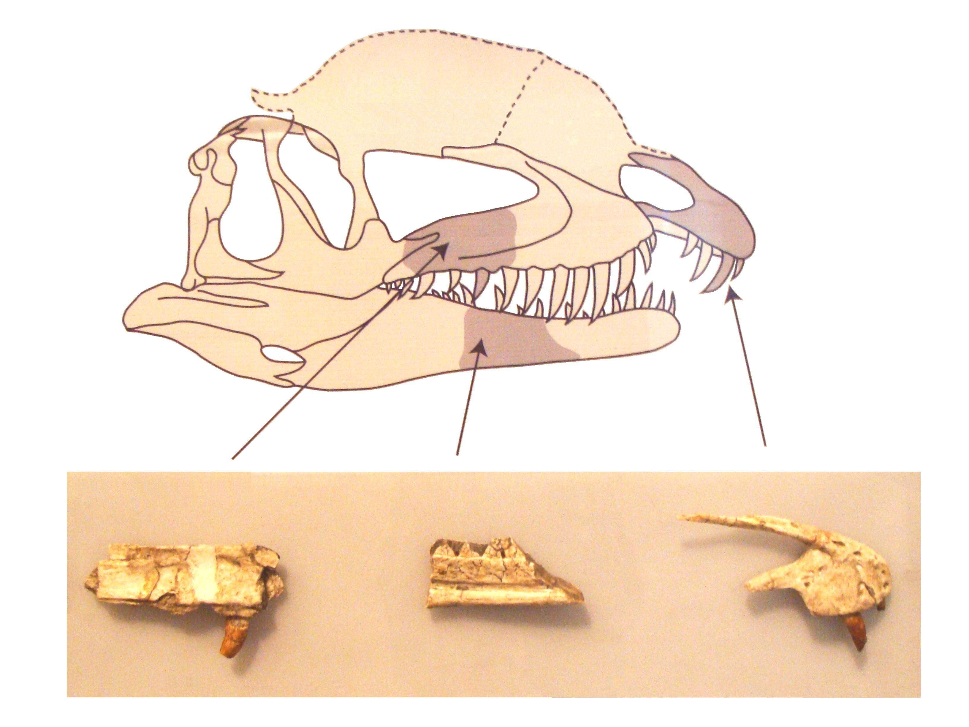 Dracovenator on display at the Royal Ontario Museum.